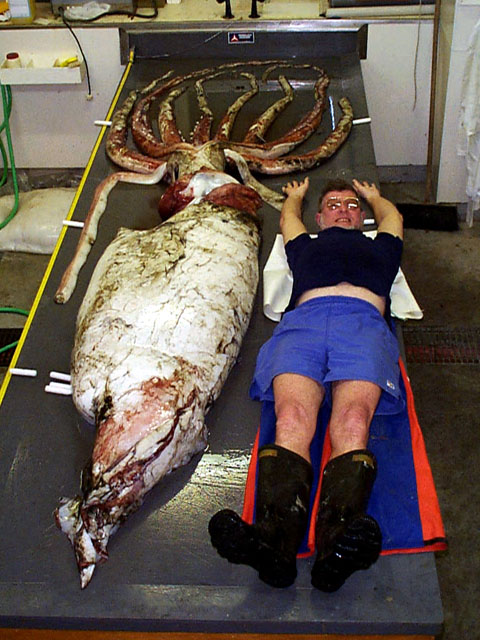 Photo from In Search of Giant Squid - 1999 Expedition Journals, Smithsonian Institution.